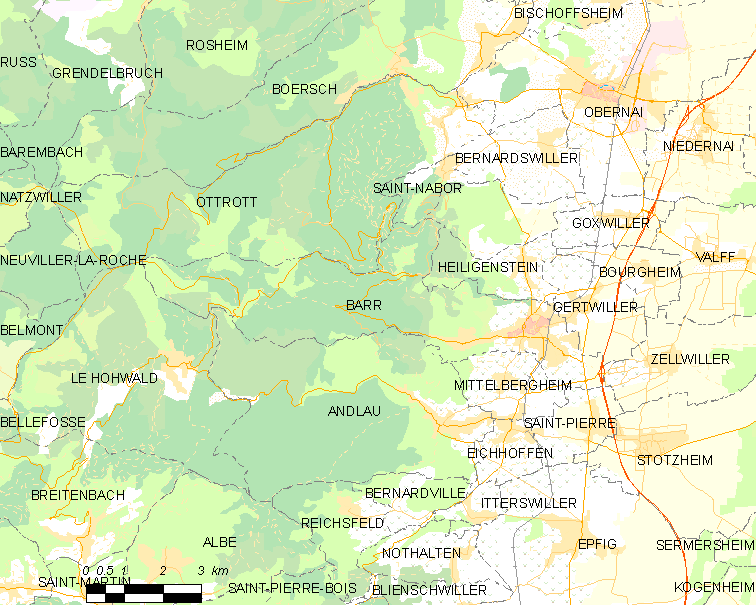 Map of French municipality